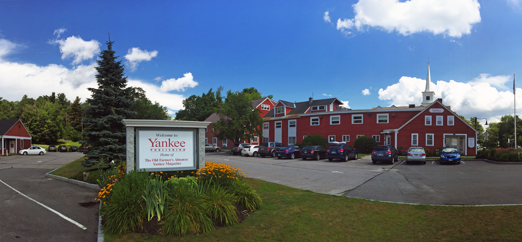 Yankee Publishing, Inc. Headquarters. Publishers of The Old Farmer's Almanac and Yankee Magazine in Dublin, NH